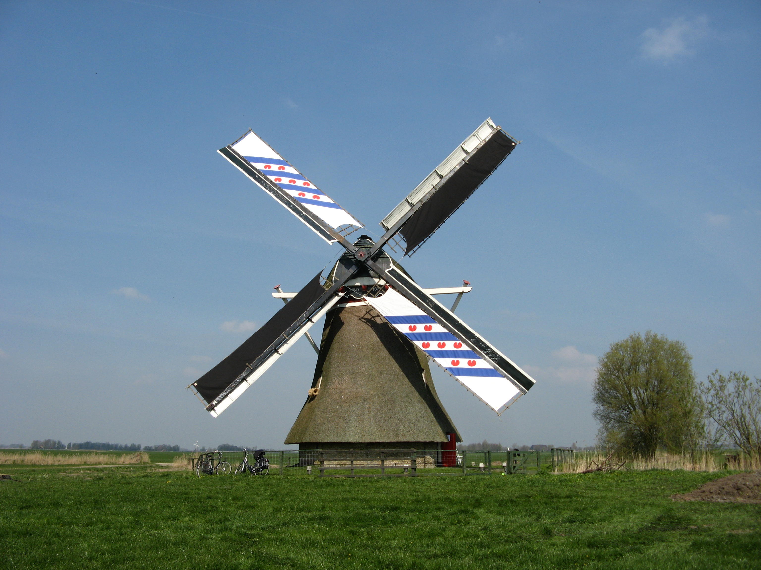 Drainage mill Bullemolen with special Frisian sails